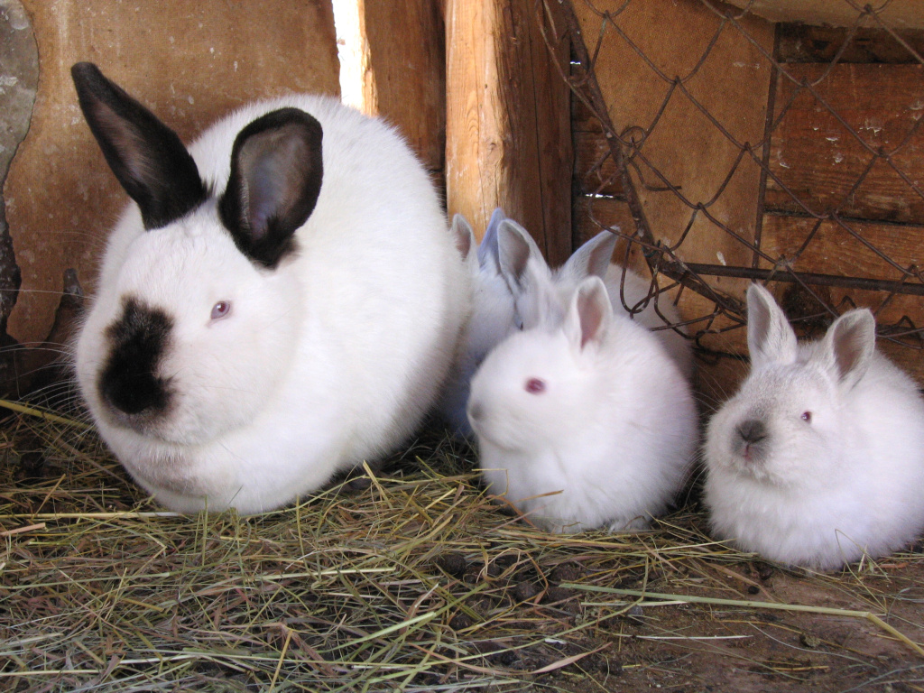 White New Zealand rabbit.